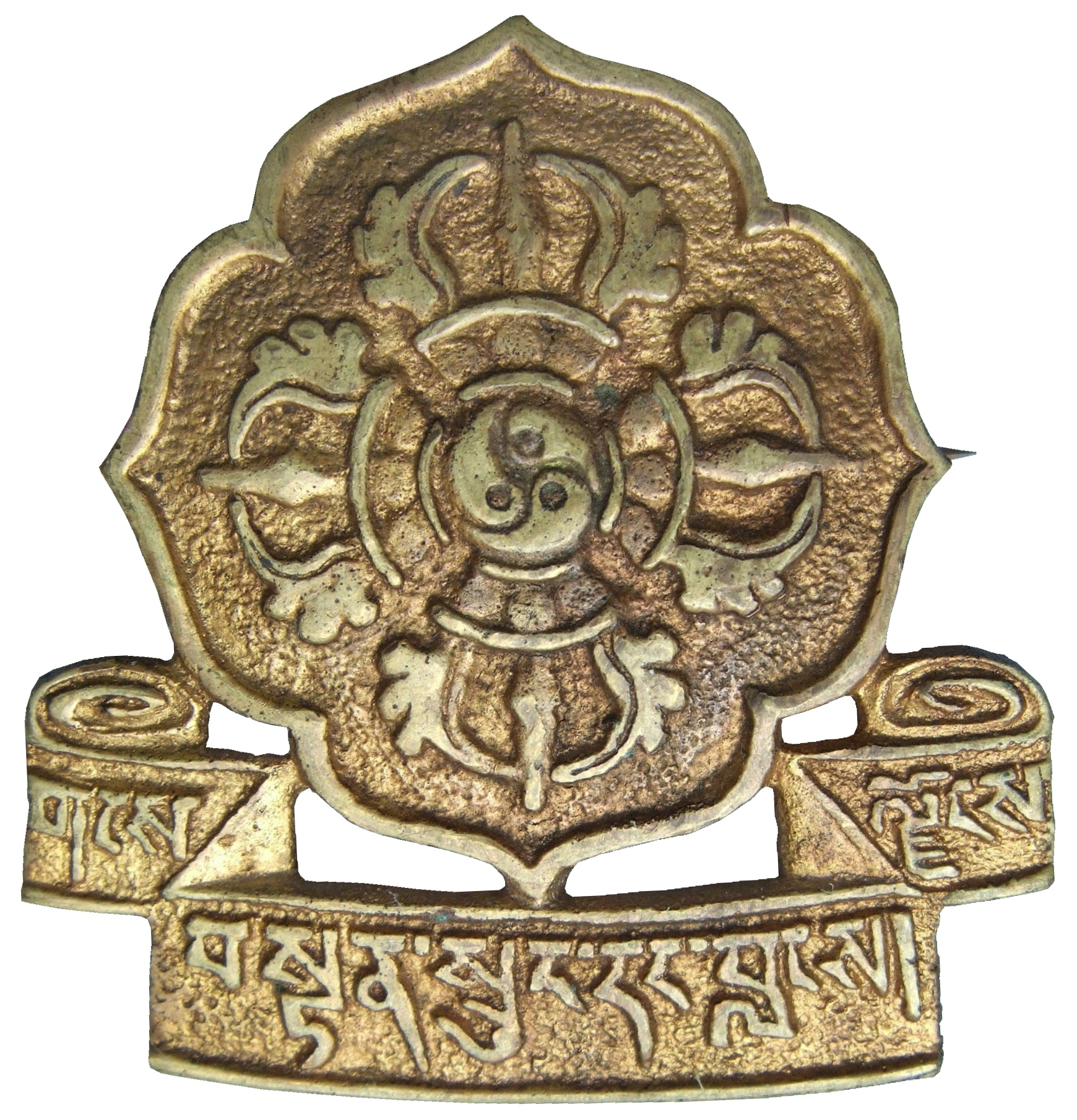 Badge of "Chu bzhi sgang drug" Volunteer Defenders of Faith, Tibet